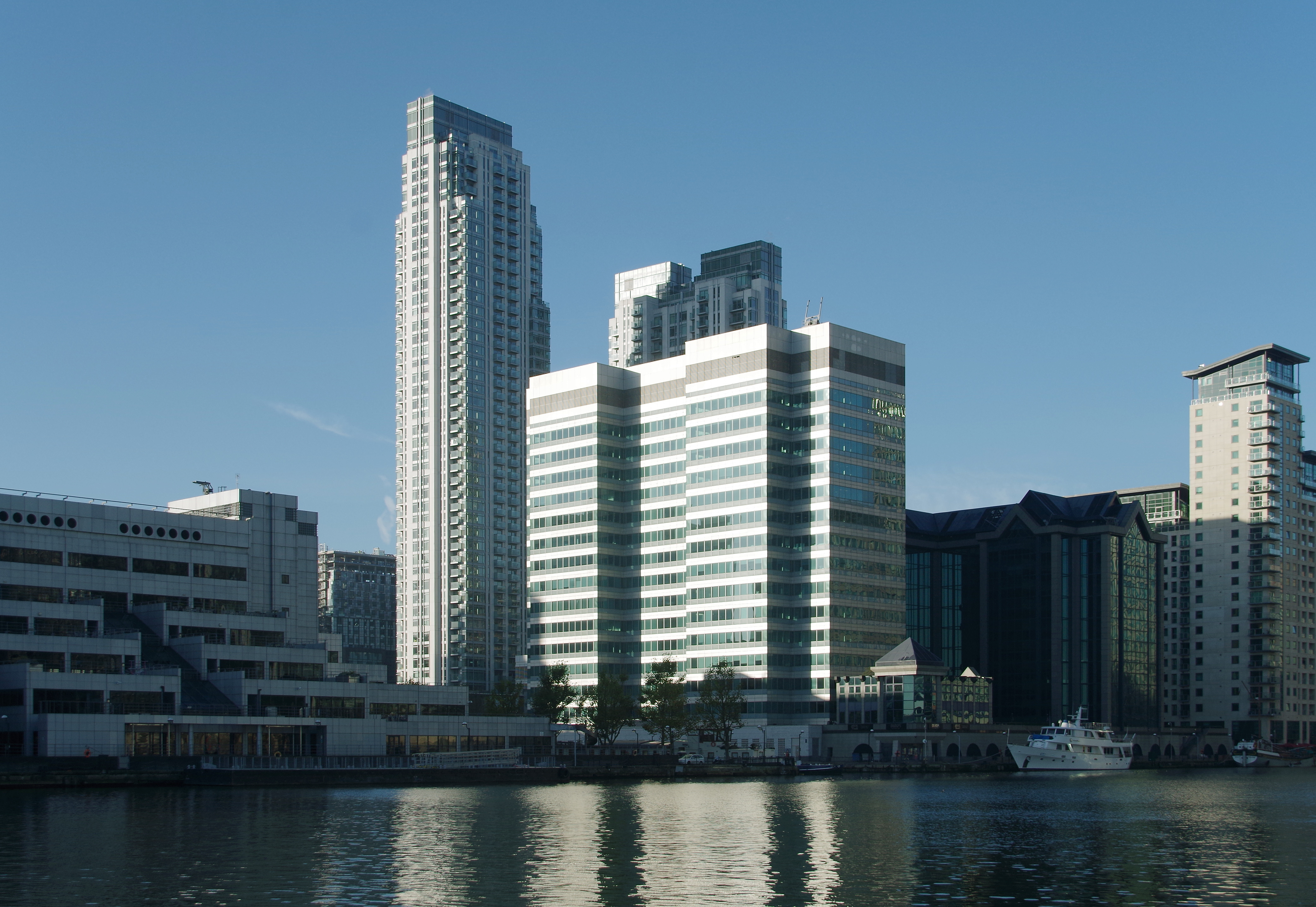 Looking across the City Canal towards Pan Peninsula and South Quay Plaza on a sunny morning.